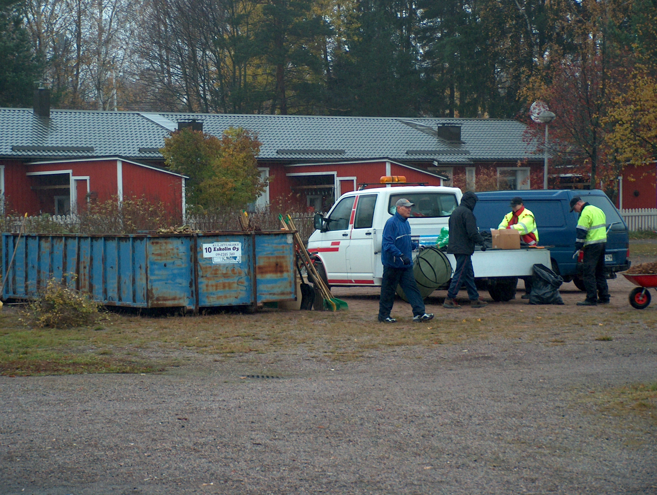 The Work Party in Jaakkola 2008 - Jaakkolanpiha in Kerava, Finland